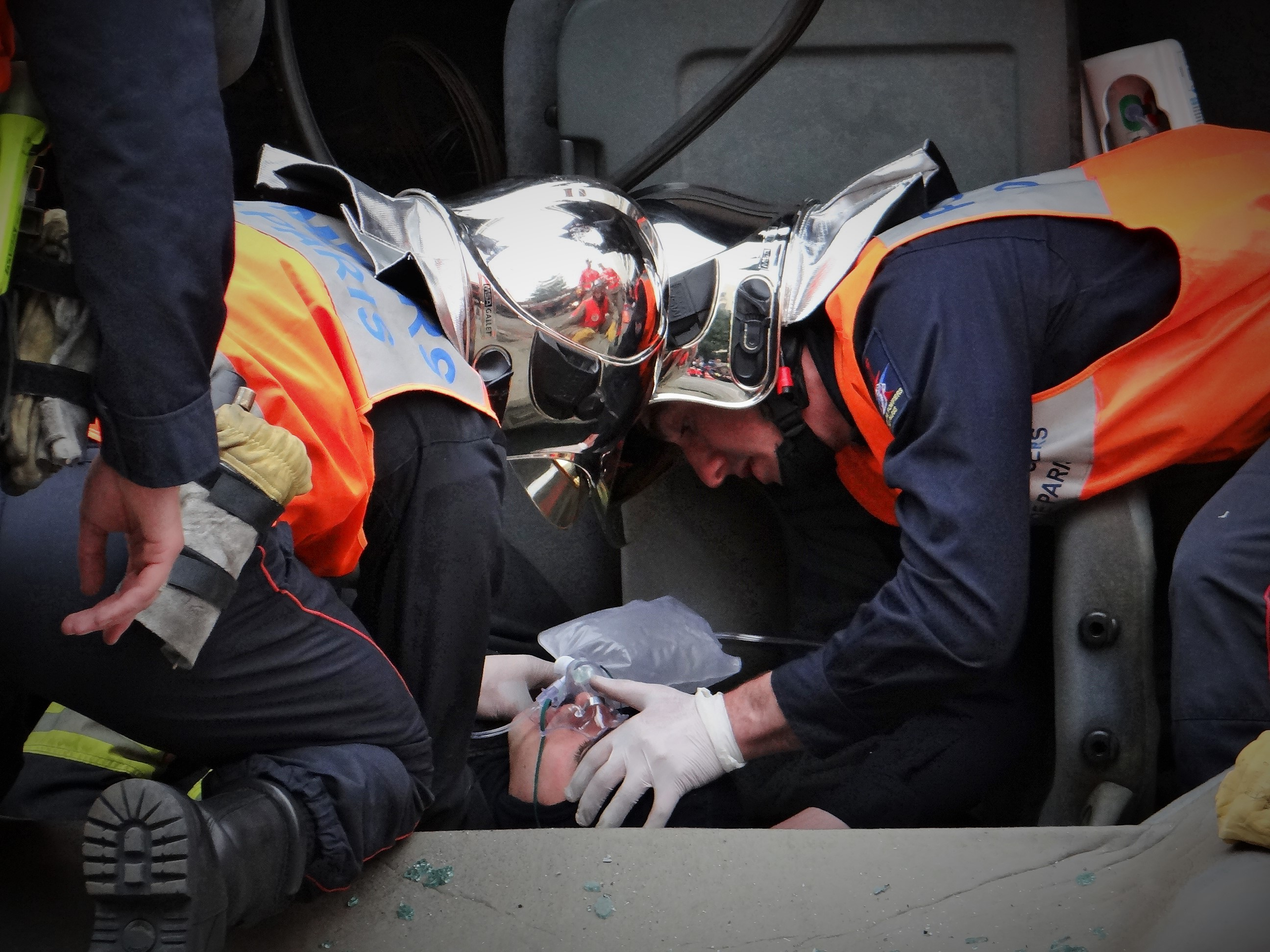 extrication exercise by firefighters from Paris